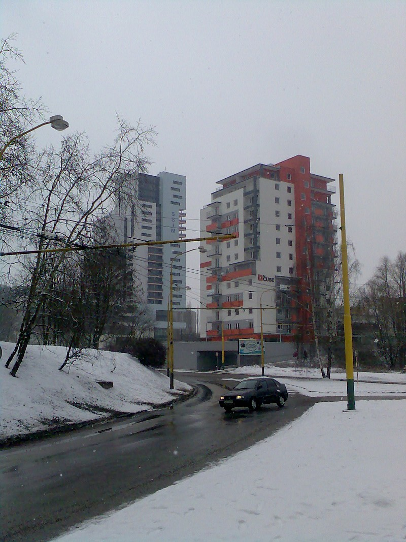 Building The Cube (13f) and Europalace (22f)